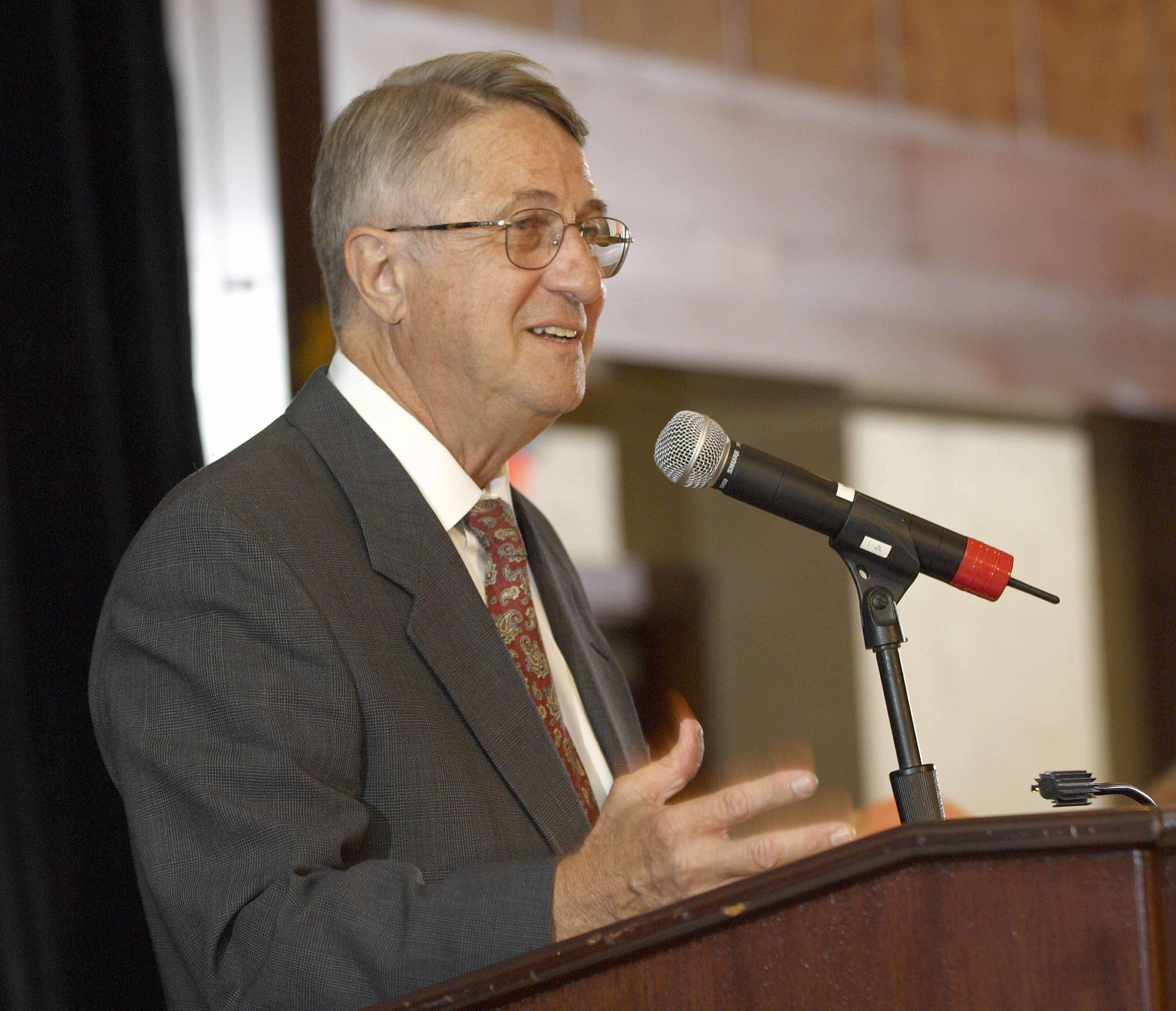 Photograph of Robert W. Gore, engineer and scientist, at Innovation Day, 7 September 2005, at the Chemical Heritage Foundation, Philadelphia, PA, USA.